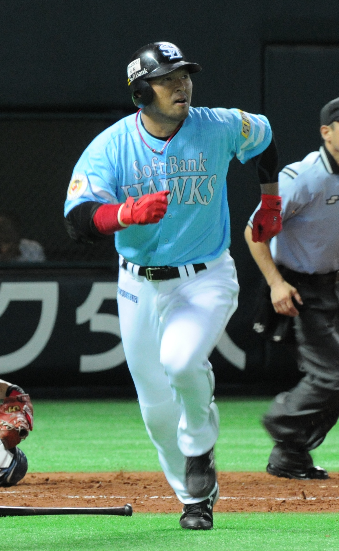 Nobuhiko Matsunaka, outfielder of the Fukuoka SoftBank Hawks, at Fukuoka Dome.